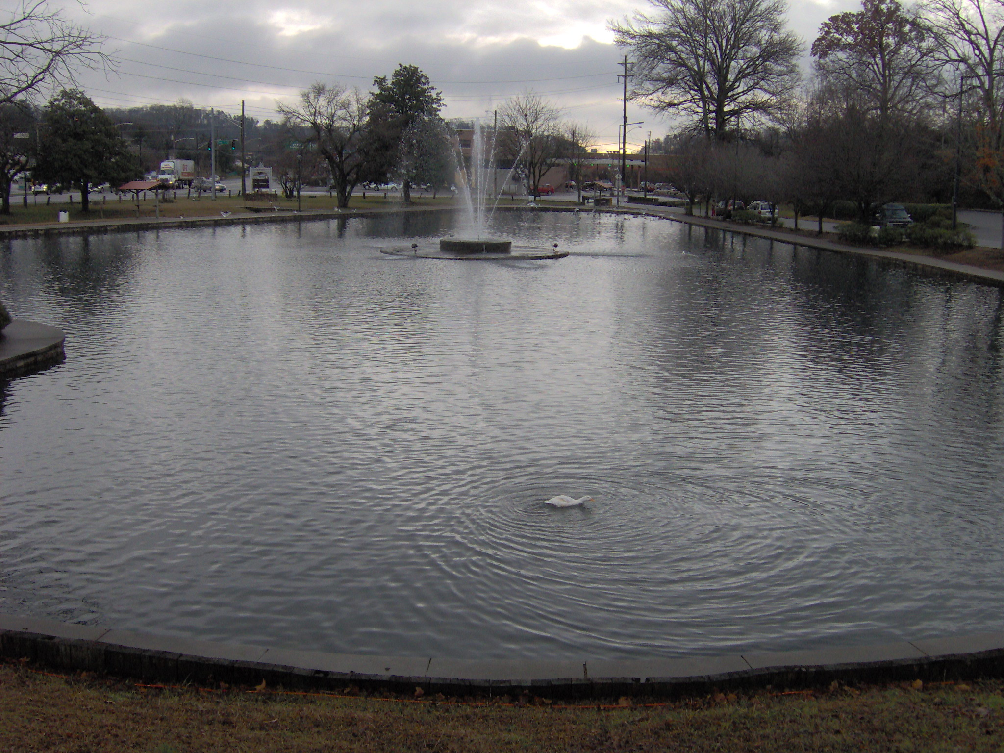 Fountain City Duck Pond, in Knoxville, Tennessee, in the southeastern United States. The heart-shaped lake was built by the residents of Fountain City in 1890.